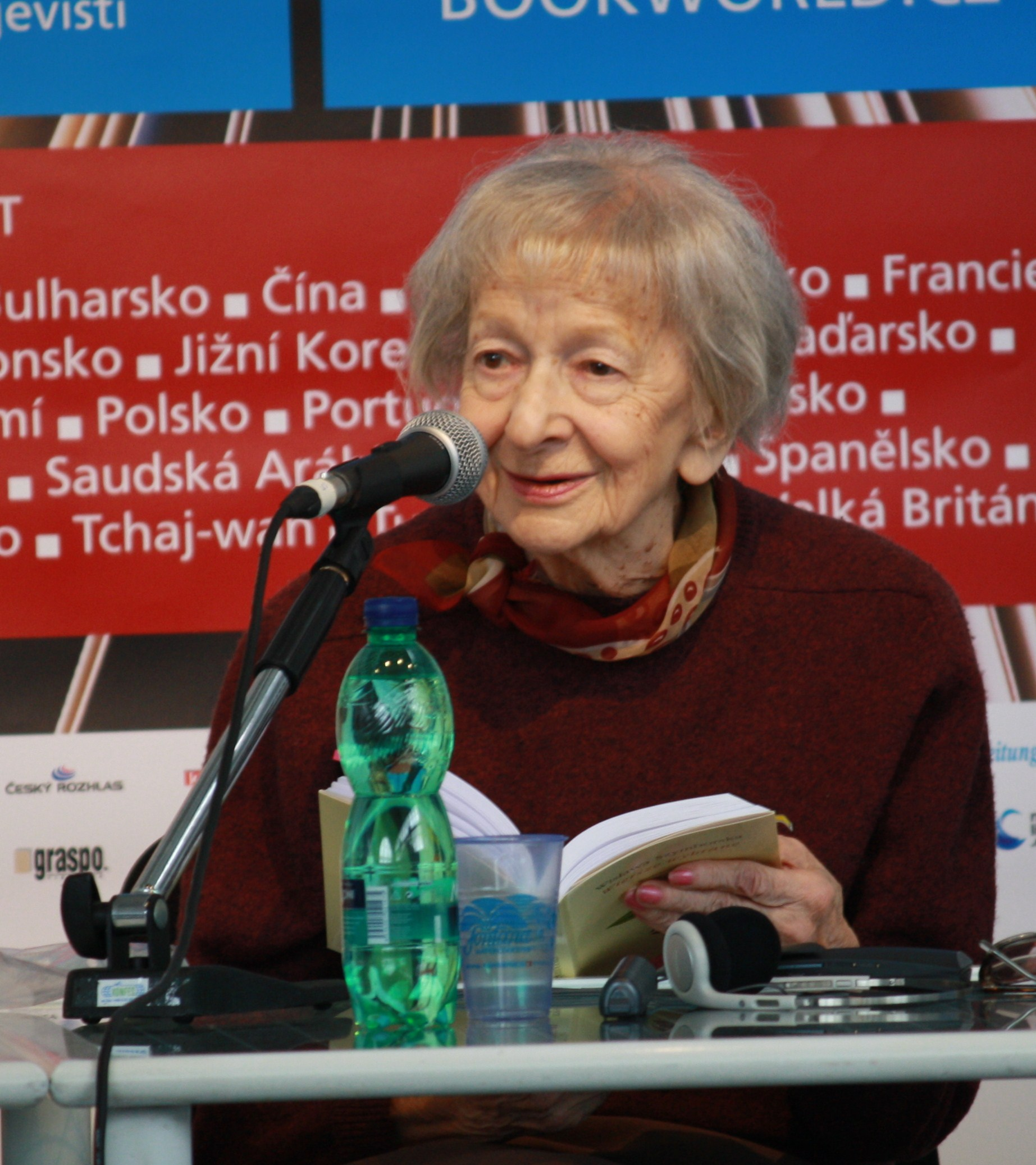 Wisława Szymborska (*1923) reeds at Book World 2010, Prague, Czech Republic. This photograph was taken with DSLR from WMCZ's Camera grant